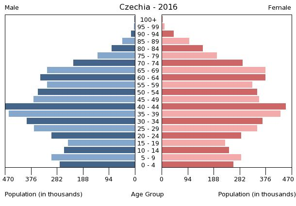 The population pyramid of Czechia illustrates the age and sex structure of population and may provide insights about political and social stability, as well as economic development. The population is distributed along the horizontal axis, with males shown on the left and females on the right. The male and female populations are broken down into 5-year age groups represented as horizontal bars along the vertical axis, with the youngest age groups at the bottom and the oldest at the top. The shape of the population pyramid gradually evolves over time based on fertility, mortality, and international migration trends.